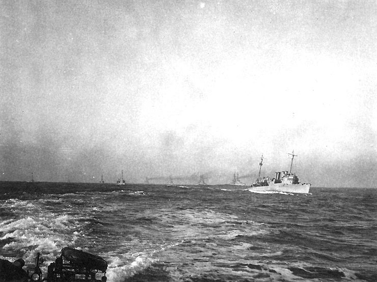 U.S. Atlantic Fleet Destroyers and Battleships steam in columns as they escort USS George Washington (ID-3018), with President Woodrow Wilson on board, off Brest, France.